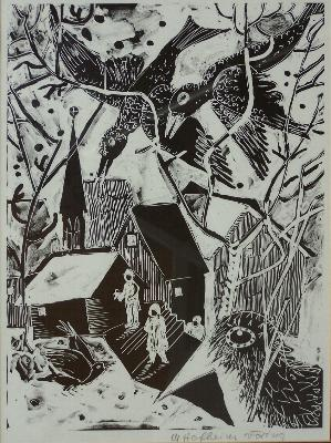 The Ravens (For a poem of Nietzsche), Drawing-Repro, 30x40cm, 1978, by Margret Hofheinz-Döring